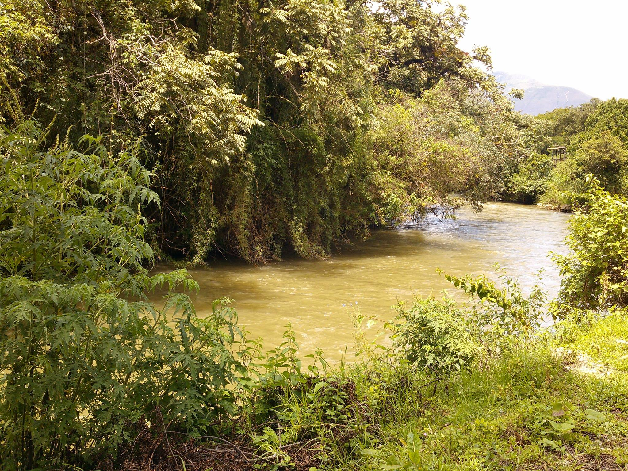 Utcubamba river in Limatambo